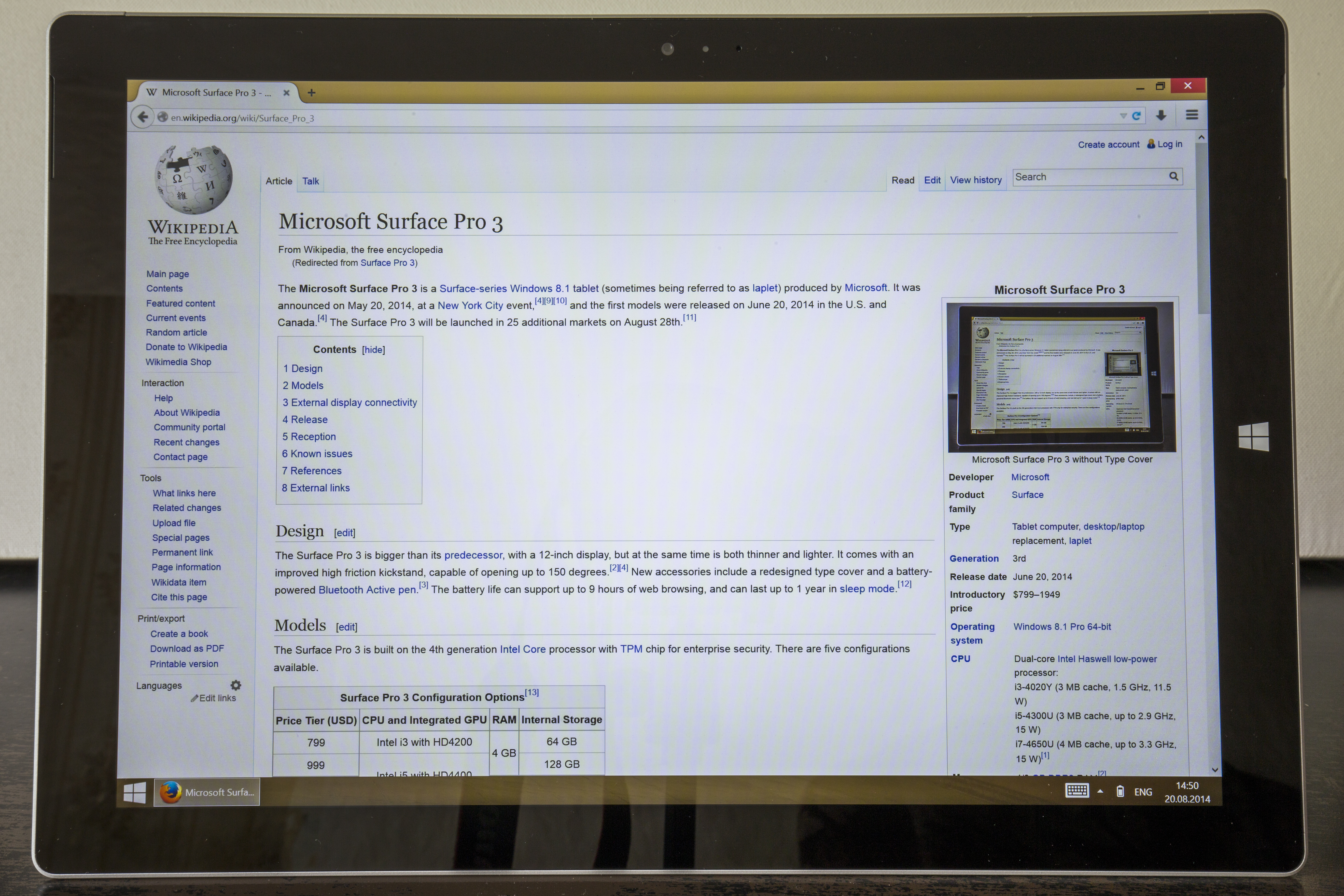 Front view of Microsoft Surface Pro 3 without Type Cover.